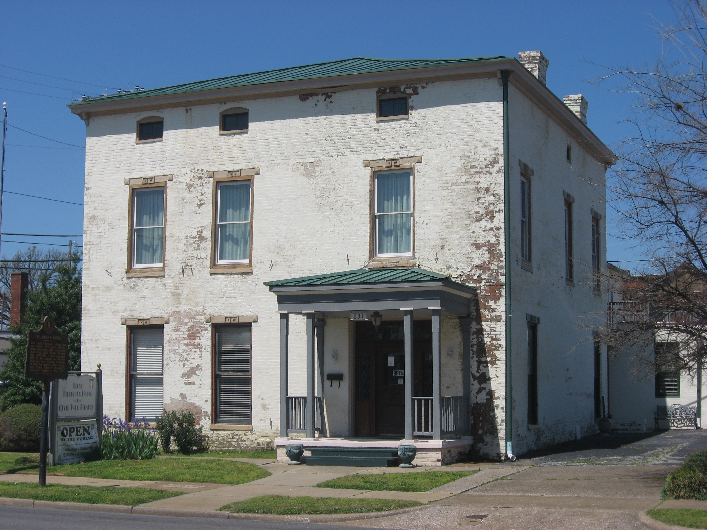 Front and eastern side of the Lloyd Tilghman House (now a museum), located at 631 Kentucky Avenue in Paducah, Kentucky, United States. Built in 1852, it is listed on the National Register of Historic Places.